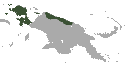 Grizzled Tree Kangaroo (Dendrolagus inustus) range